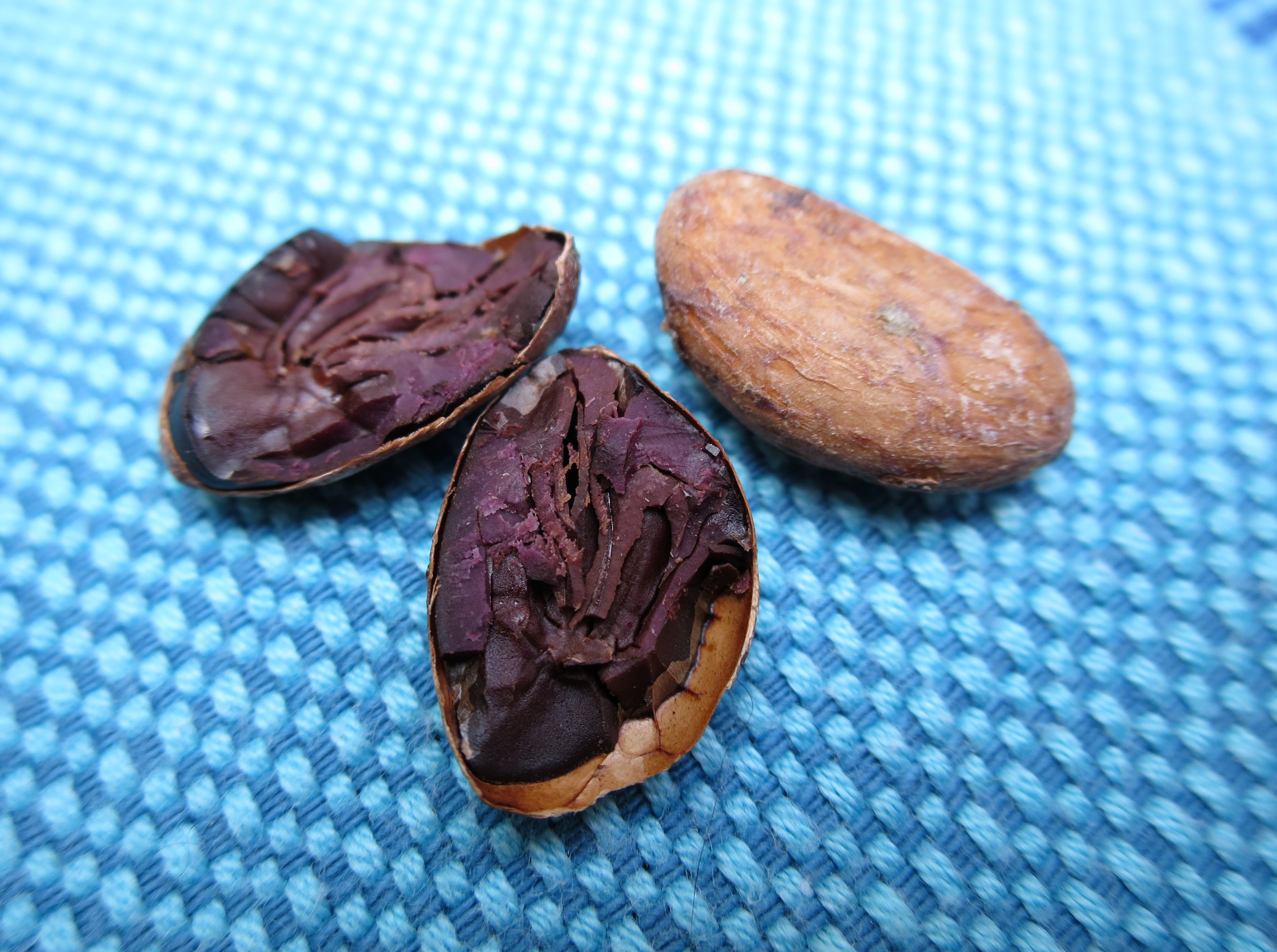 Intact and split cocoa bean